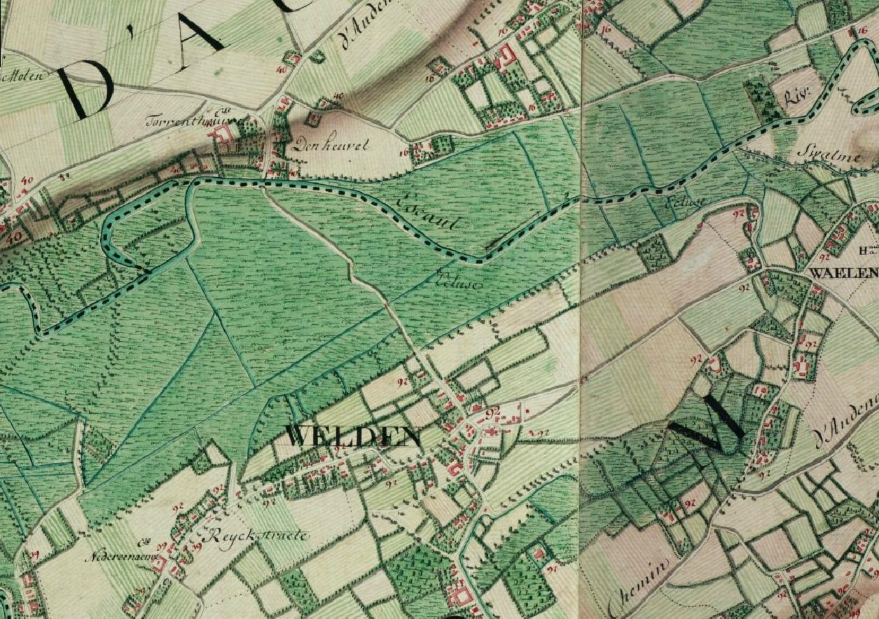 Old road (now disappeared) between Welden and Heurne, with a crossing of the river Schelde (now disappeared)